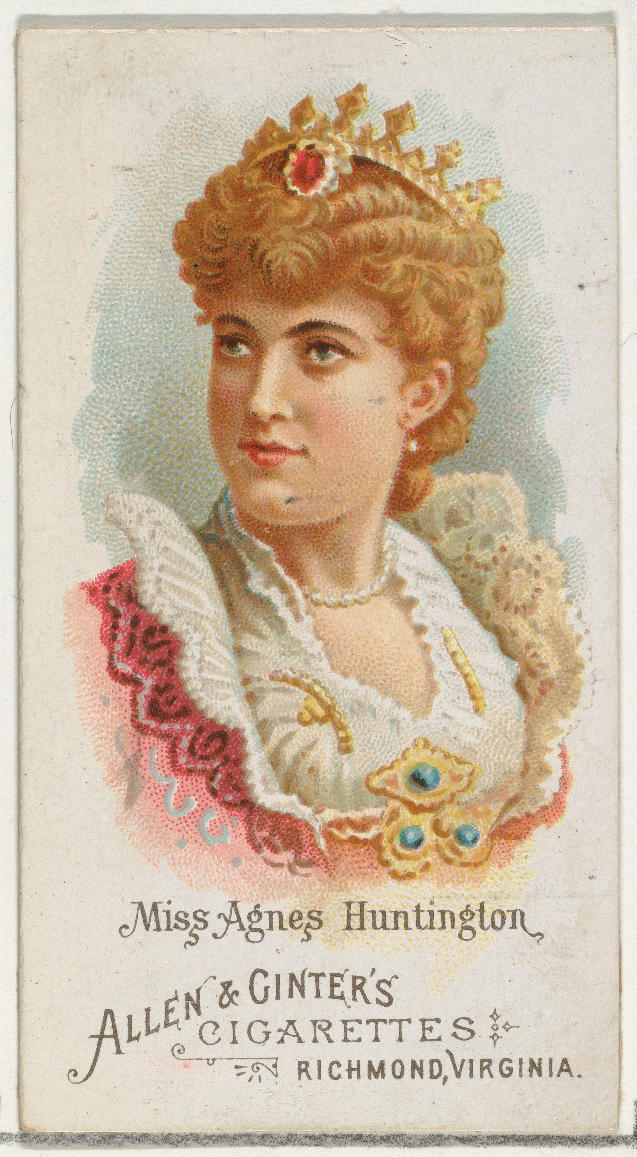 Print; Prints/Ephemera